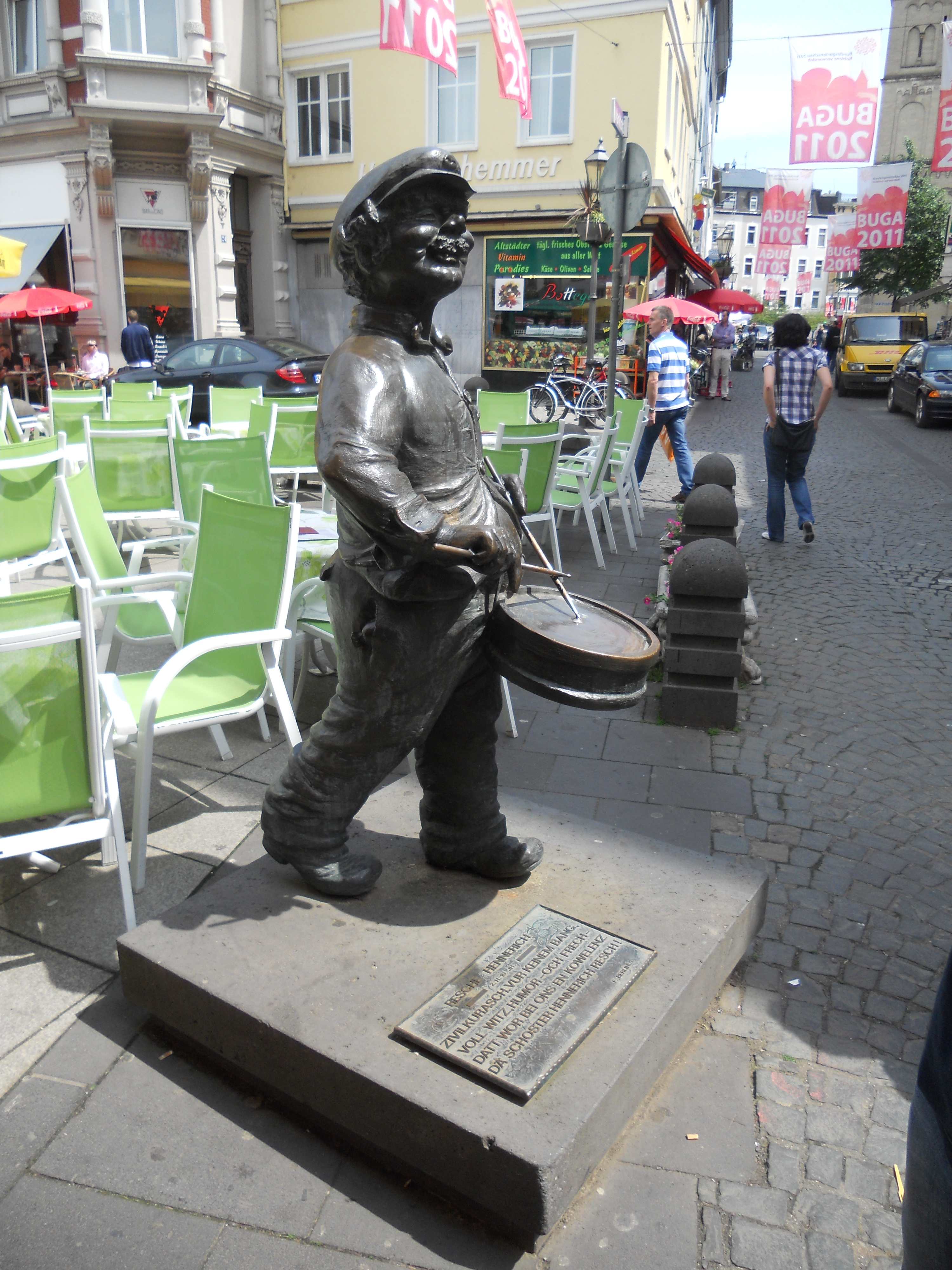 Civil courage, monument to " Resche Hennerich", Koblenz